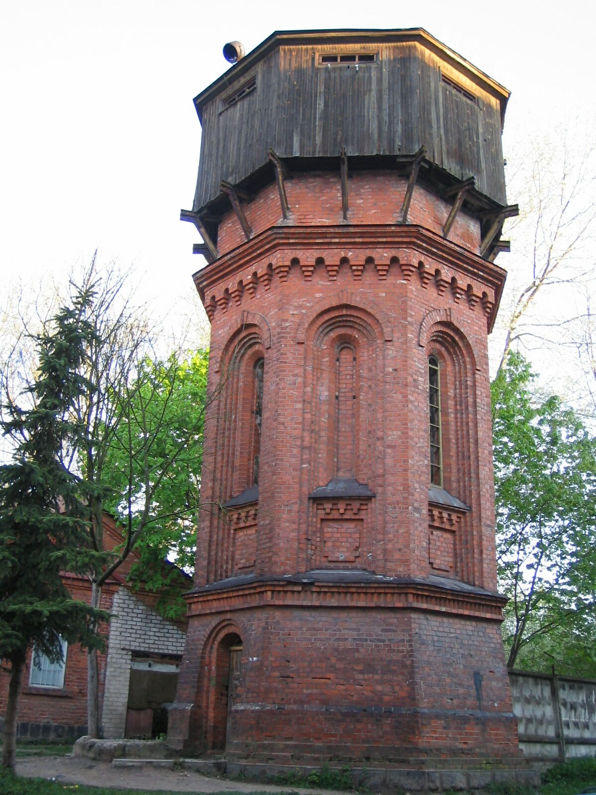 19th century tower in Freda (Kaunas).